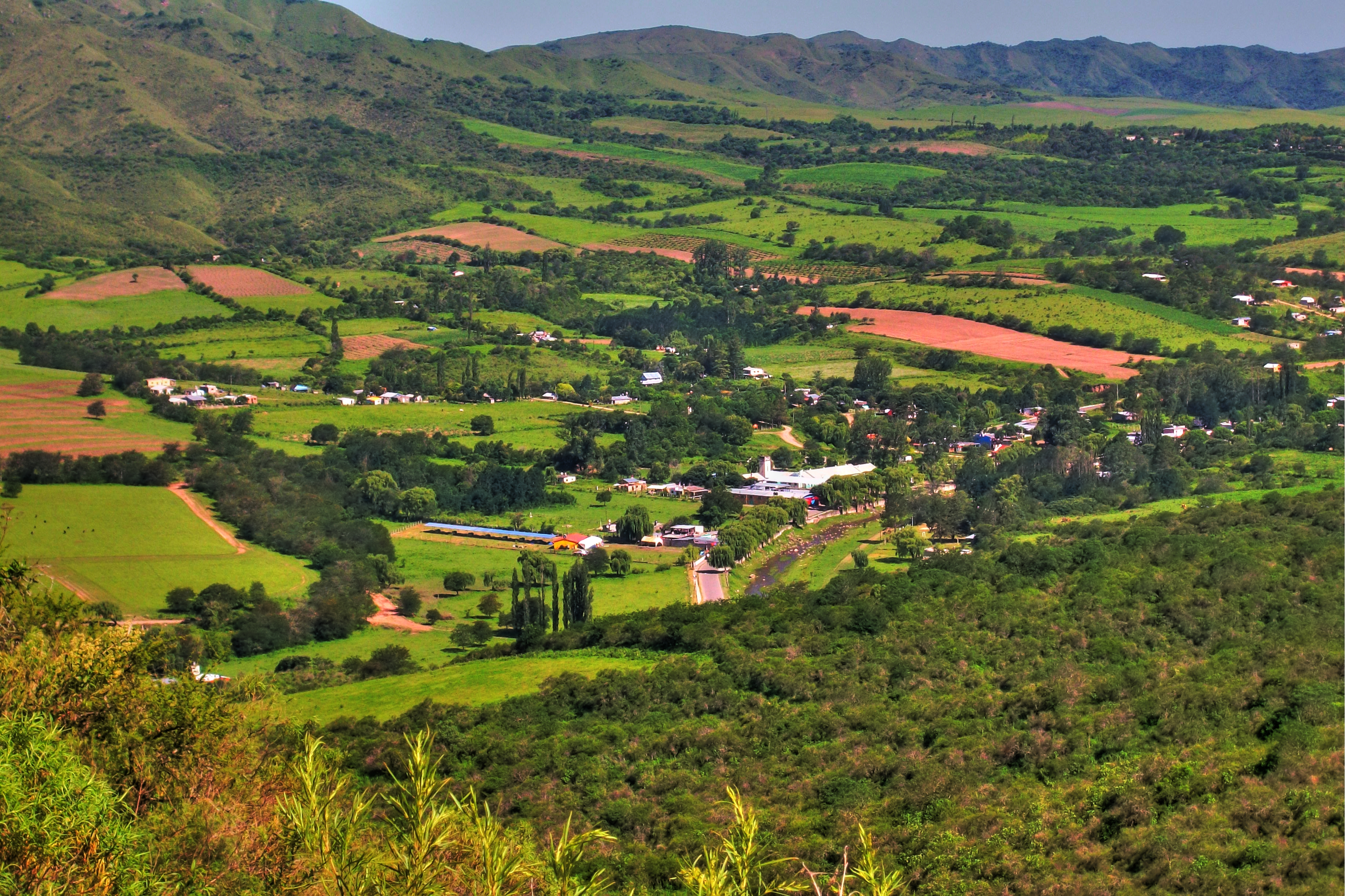 Capture of the Village of Balcozna taken from the Sierras de Los Pinos.